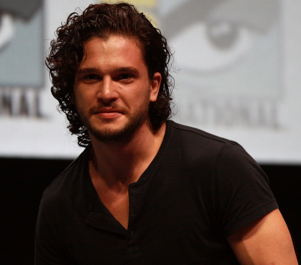 Kit Harrington speaking at the 2013 San Diego Comic Con International, for "Game of Thrones", at the San Diego Convention Center in San Diego, California.